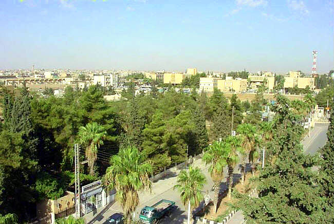 Shukri al-Qiwatly street, Qamishli, Syria.